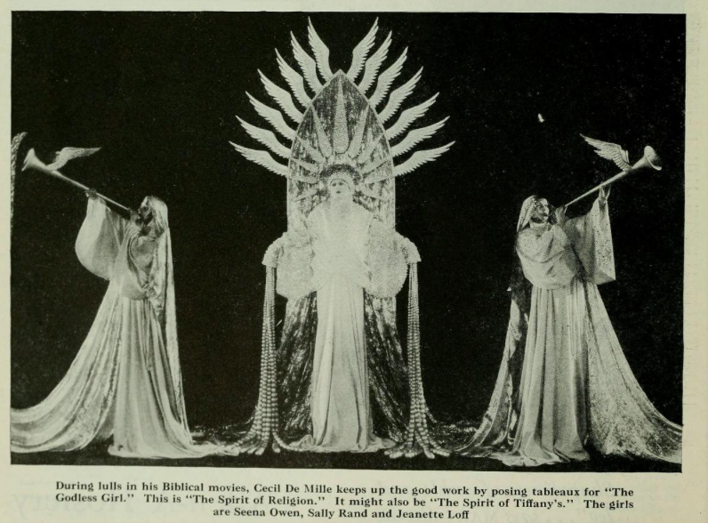 Seena Owen, Sally Rand, and Jeanette Loff